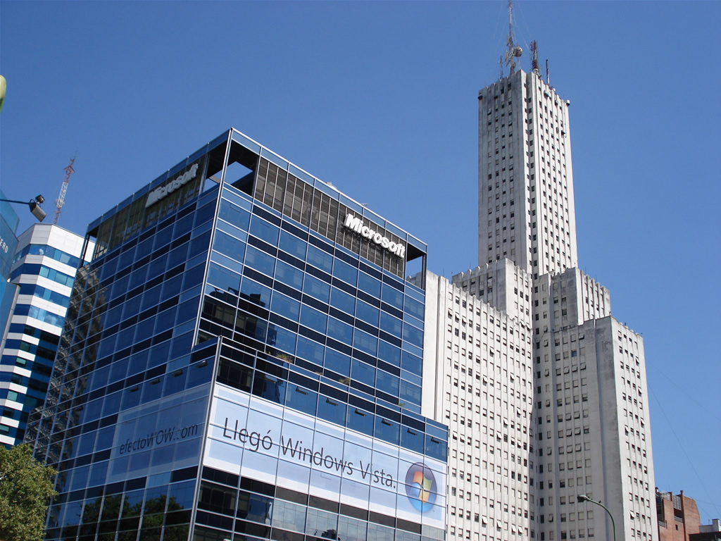 Microsoft Argentina (after 2011, Samsung) building with Windows Vista advert; the 42-story Alas Building is behind it.